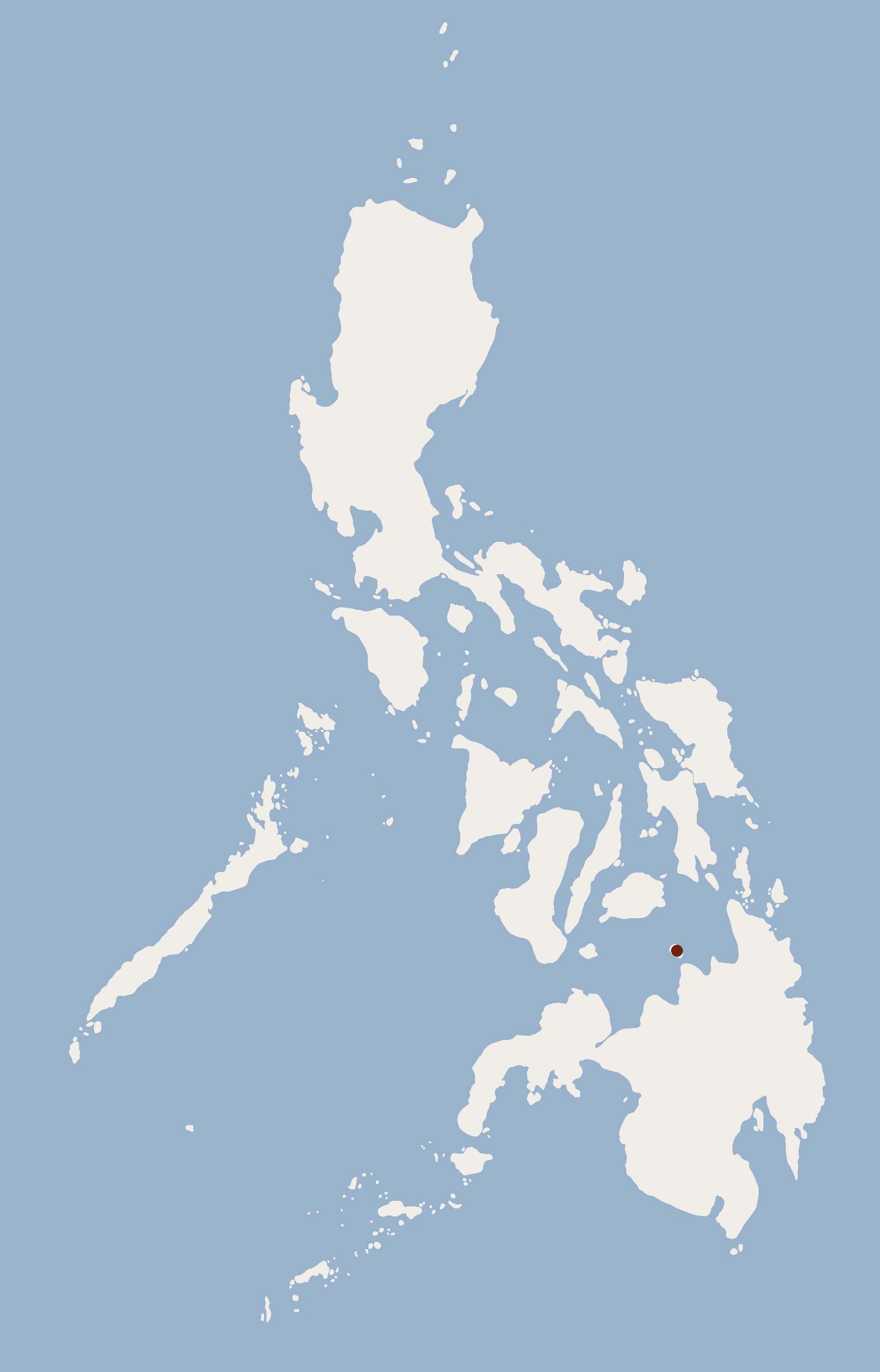 Geographical distribution of Bullimus gamay according to Museum specimens